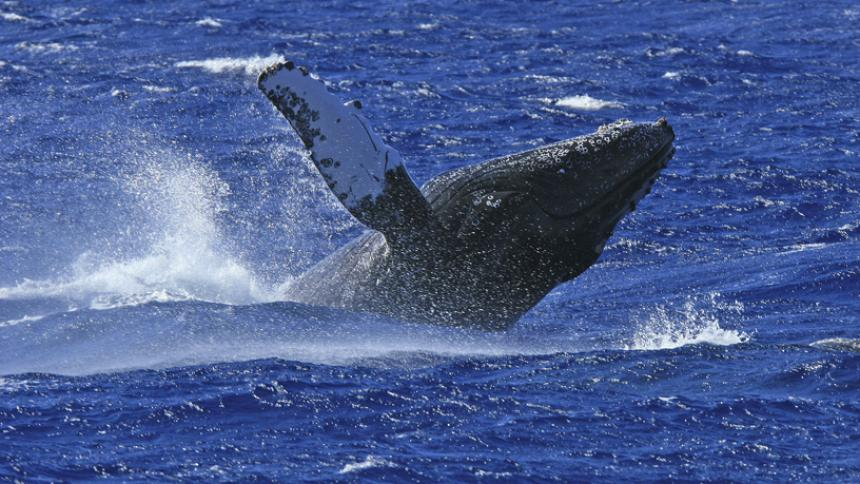 A humpback whale (Megaptera novaeangliae) breaching off South Caicos Island